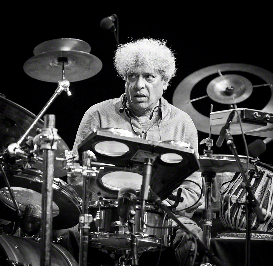 Trilok Gurtu performs with Jan Garbarek Group featuring Trilok Gurtu at the main stage of Oslo Opera House. The concert was part of the Oslo Jazz Festival in Norway and took place on 14. August 2016. Lineup:Jan Garbarek (saxophone)Rainer Brüninghaus (keyboard)Yuri Daniel (bass)Trilok Gurtu (percussion)